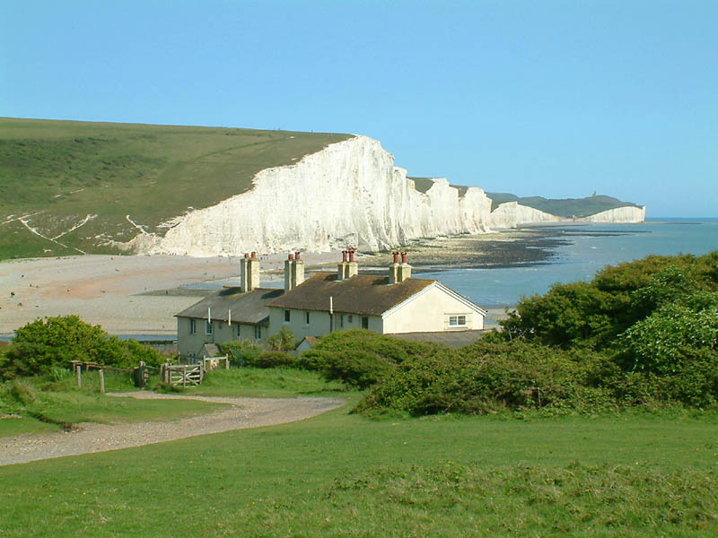 Seven Sisters chalk cliffs in East Sussex. The number seven refers to the cliff peaks, which are individually named: from the west they are Haven Brow, Short Brow, Rough Brow, Brass Point, Flagstaff Point (continuing into Flagstaff Brow), Baily's Hill, and Went Hill Brow. Beyond, on the top of the next hill, is Belle Tout lighthouse. The dips between each Sister are also named: Short Bottom, Limekiln Bottom, Rough Bottom, Gap Bottom, Flagstaff Bottom, and Michel Dean. The South Downs Way runs along the edge of the cliffs, taking a very undulating course. Photograph by Stephen Dawson, 26 May 2003. category:Cliffs category:East Sussex